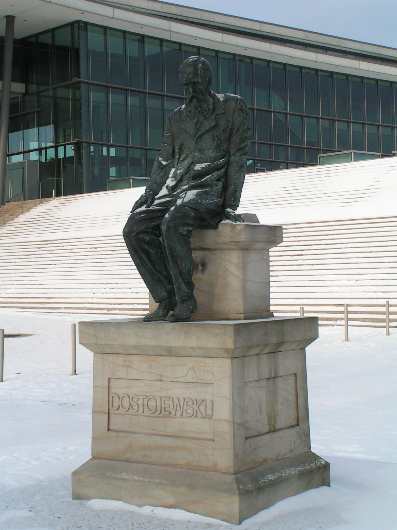 Dostoyevsky memorial in front of the Dresden conference center